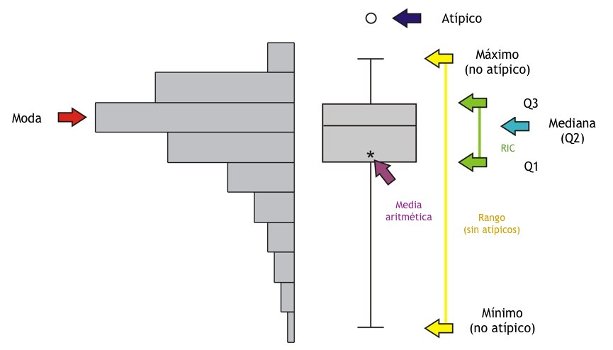 Diagrama de caja con descripción de elementos